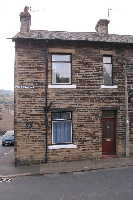 Birthplace of Ted Hughes, Mytholmroyd. Looking S at 1 Aspinall Street, the birthplace of Ted Hughes, poet Laureate.